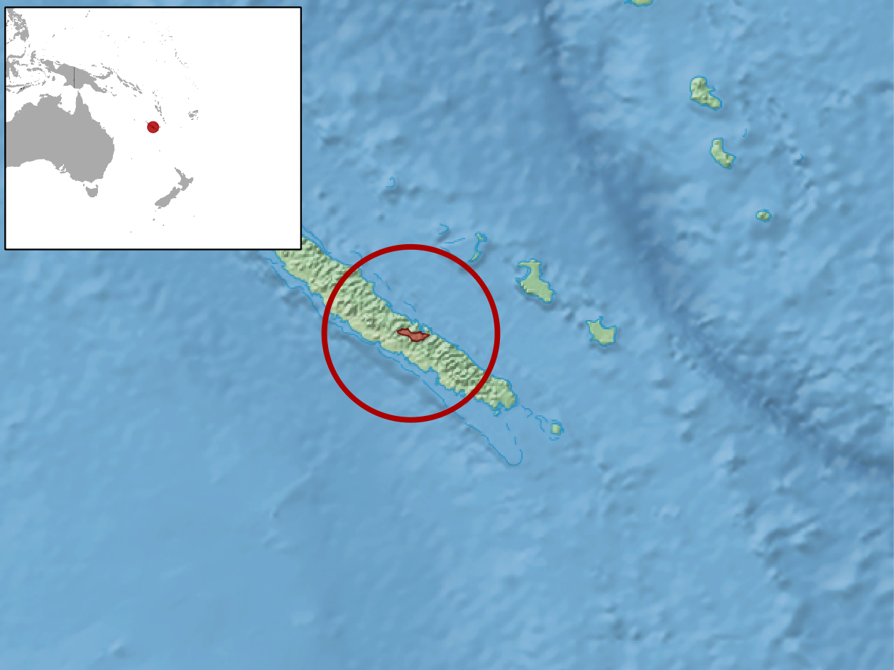 geographic distribution of Nannoscincus slevini